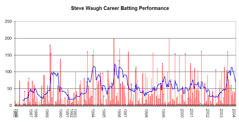 This graph details the Test Match performance of Steve Waugh. It was created by Raven4x4x. The red bars indicate the player's test match innings, while the blue line shows the average of the ten most recent innings at that point. Note that this average cannot be calculated for the first nine innings. The blue dots indicate innings in which Waugh finished not-out. This graph was generated with Microsoft Excel 2002, using data from Cricinfo and .au.